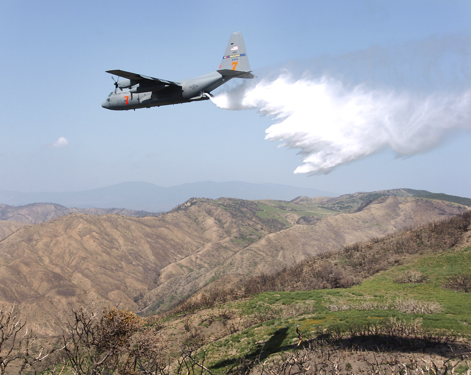 A U.S. Air Force Lockheed C-130H Hercules (s/n 92-1454) from the 156th Airlift Squadron, 145th Airlift Wing, North Carolina Air National Guard, drops 11.350 litres of water over the Los Padres National Forest, California (USA), using Modular Airborne Fire Fighting System (MAFFS) during the MAFFS 2008 annual certifying event. The annual training event included all aircrew, maintenance, support personnel directly supporting the MAFFS mission. There were four U.S. Air National Guard and Air Force Reserve units involved with MAFFS: 145th Airlift Wing, (Charlotte), 146th Airlift Wing (Channel Islands), 153rd Airlift Wing, (Wyoming) and the 302nd Airlift Wing (Colorado).